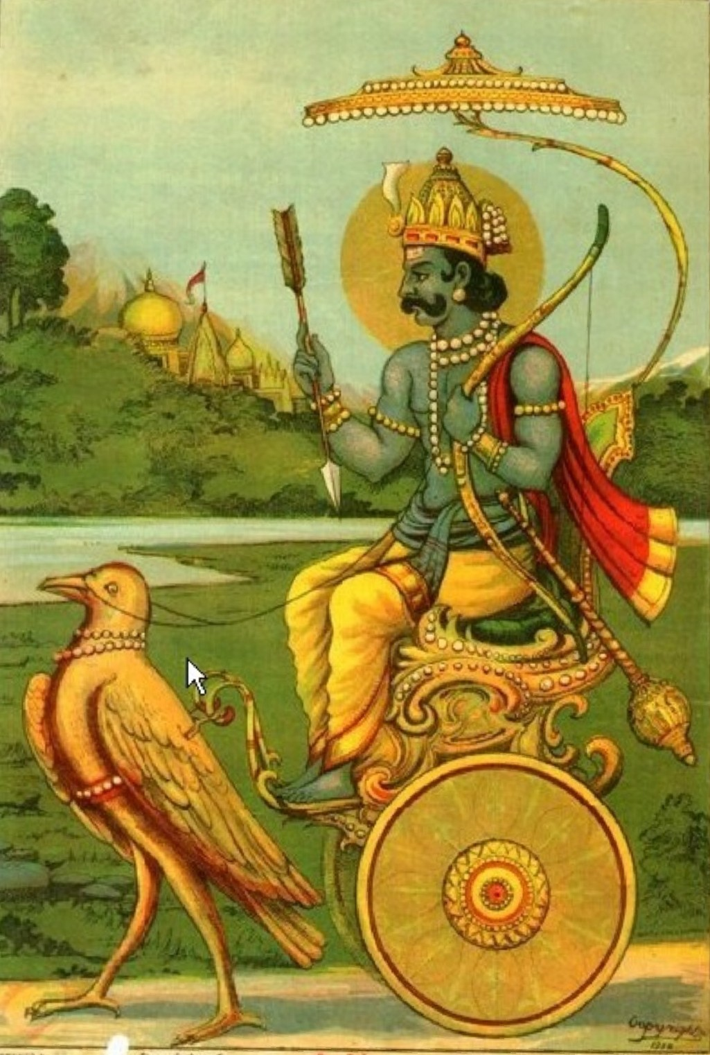 from baroda art gallery museum video screen shots